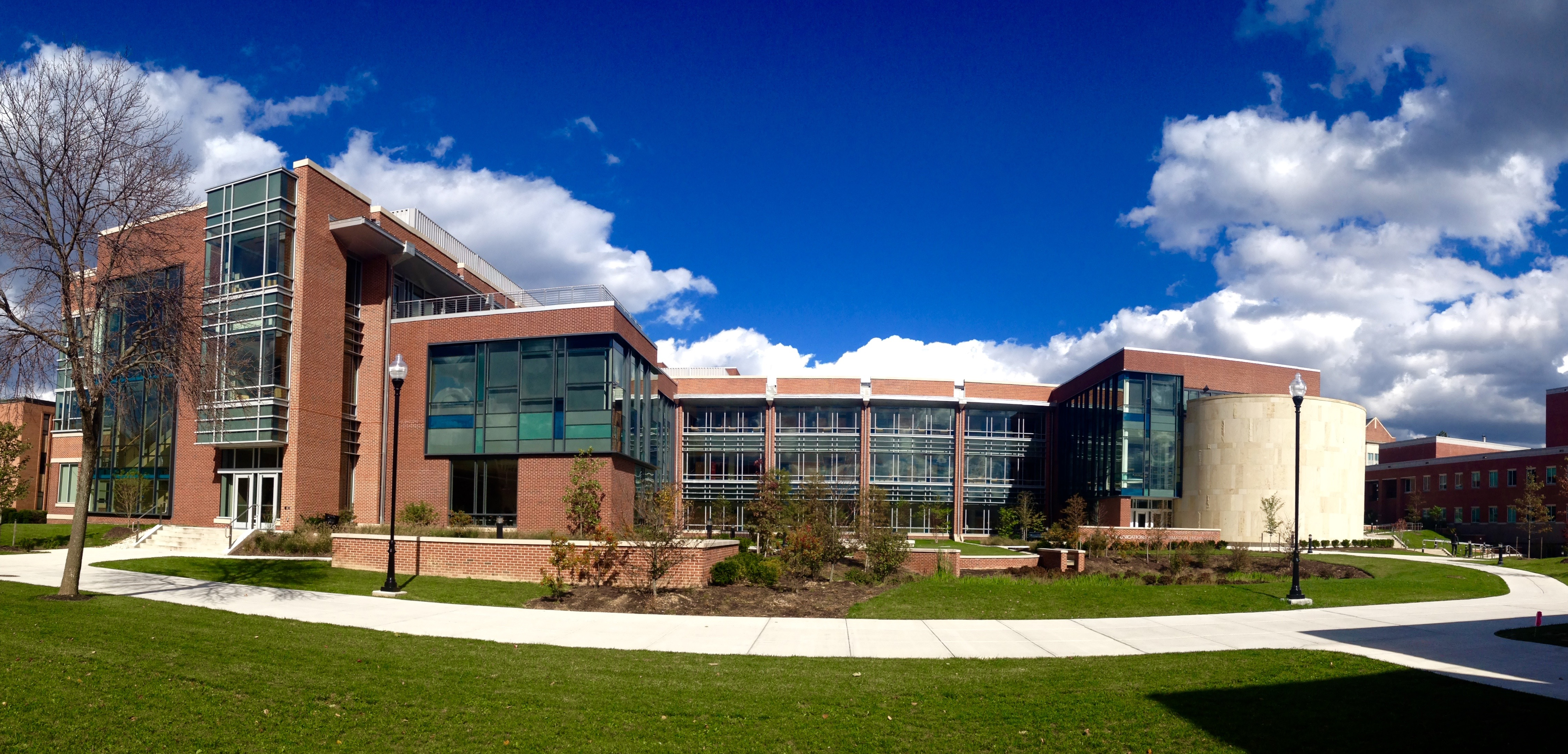 Frostburg State University's $71 million Center for Communications and Information Technology